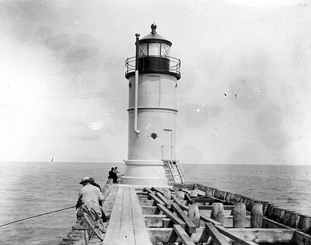 Waukegan Harbor Light, Illinois, c 1900